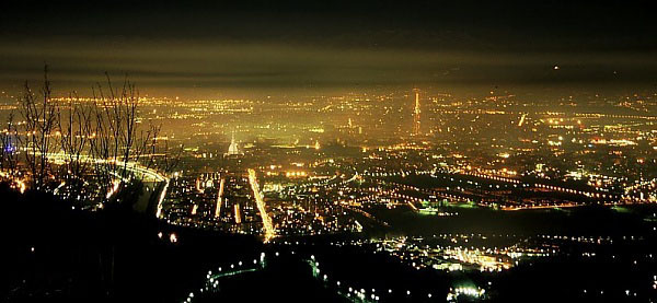 Torino, view by night, (Italy).